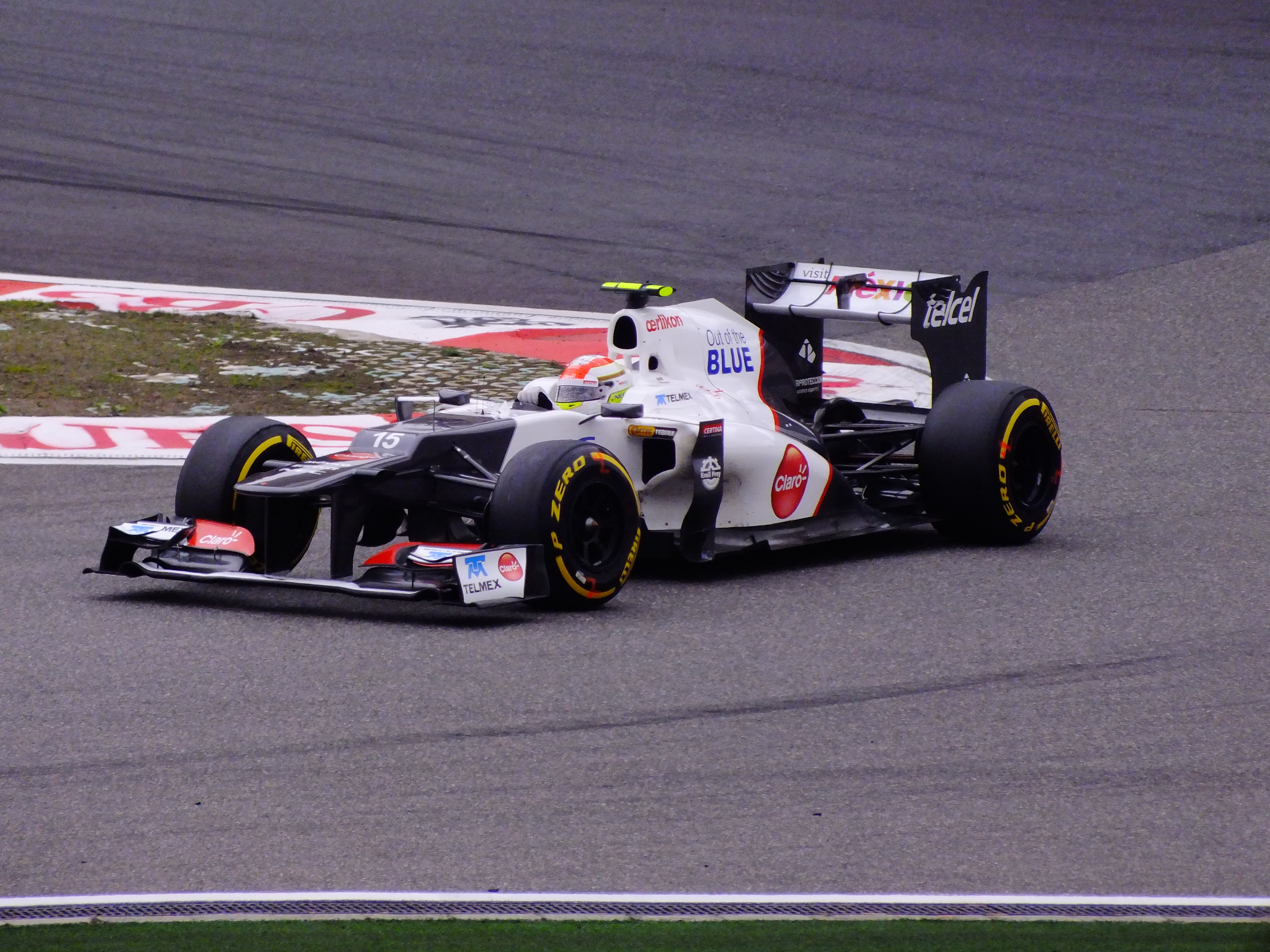 Sergio Perez at the 2012 Chinese Grand Prix